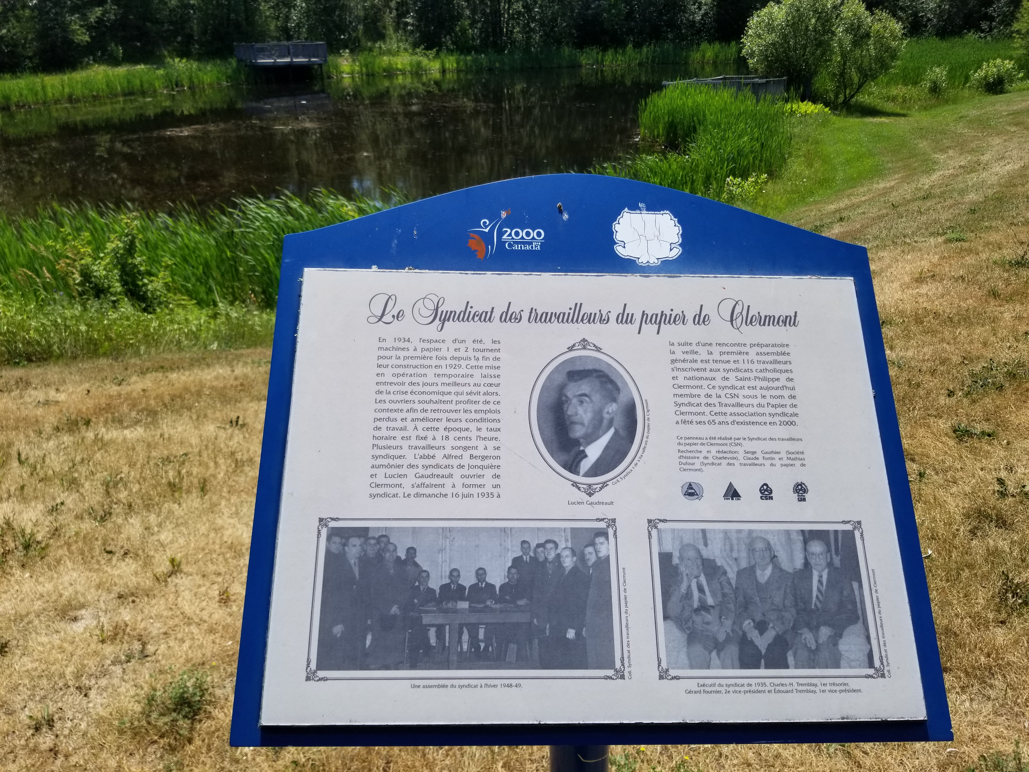 Poster evoking "The Paper Workers Union of Clermont" installed in front of a small lake at the municipal lake of Clermont, on the west bank of the Malbaie river, on the path of the bike path.